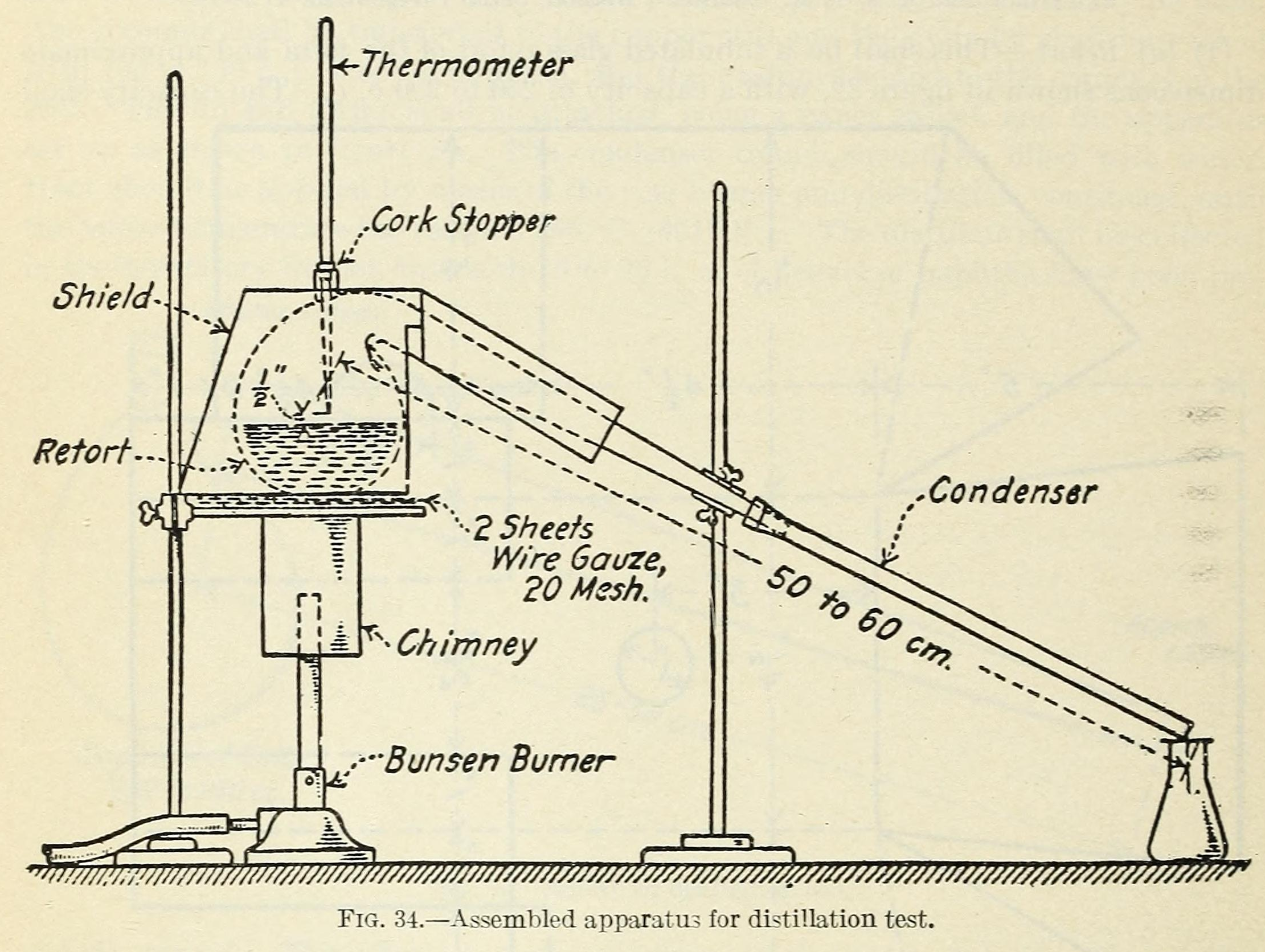 Diagram of a distillation setup using a Bunsen burner, a retort with thermometer, a simple air-cooled straight tube condenser, and a collecting Erlenmeyer flask. A chimney over the burner and a shield around the retort are indicated, for better heating. The source for this image is the 1921 book Standard and tentative methods of sampling and testing highway materials : recommended by the Second Conference of State Highway Testing Engineers and Chemists, Washington, D.C., Feb. 23-27, 1920, published by the United States. Bureau of Public Roads Second Conference of State Highway Testing Engineers and Chemists. This image is derived from this wikimedia entry. It was cropped using the Linux Gimp image editor.